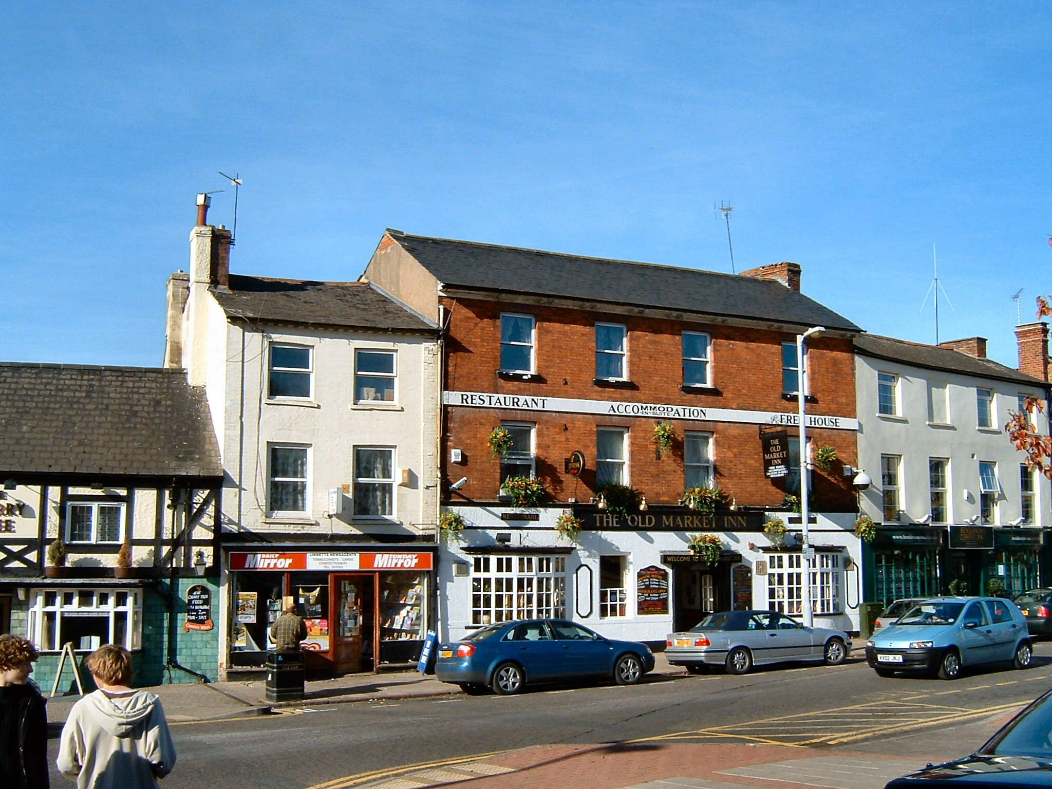 Photograph I took from Kettering market place, 2003.